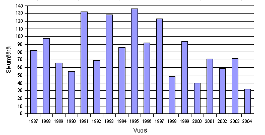 A bar chart illustrating comic artist Don Rosa's publications from 1987 to 2004. Year on the X-axis, number of pages on the Y-axis.